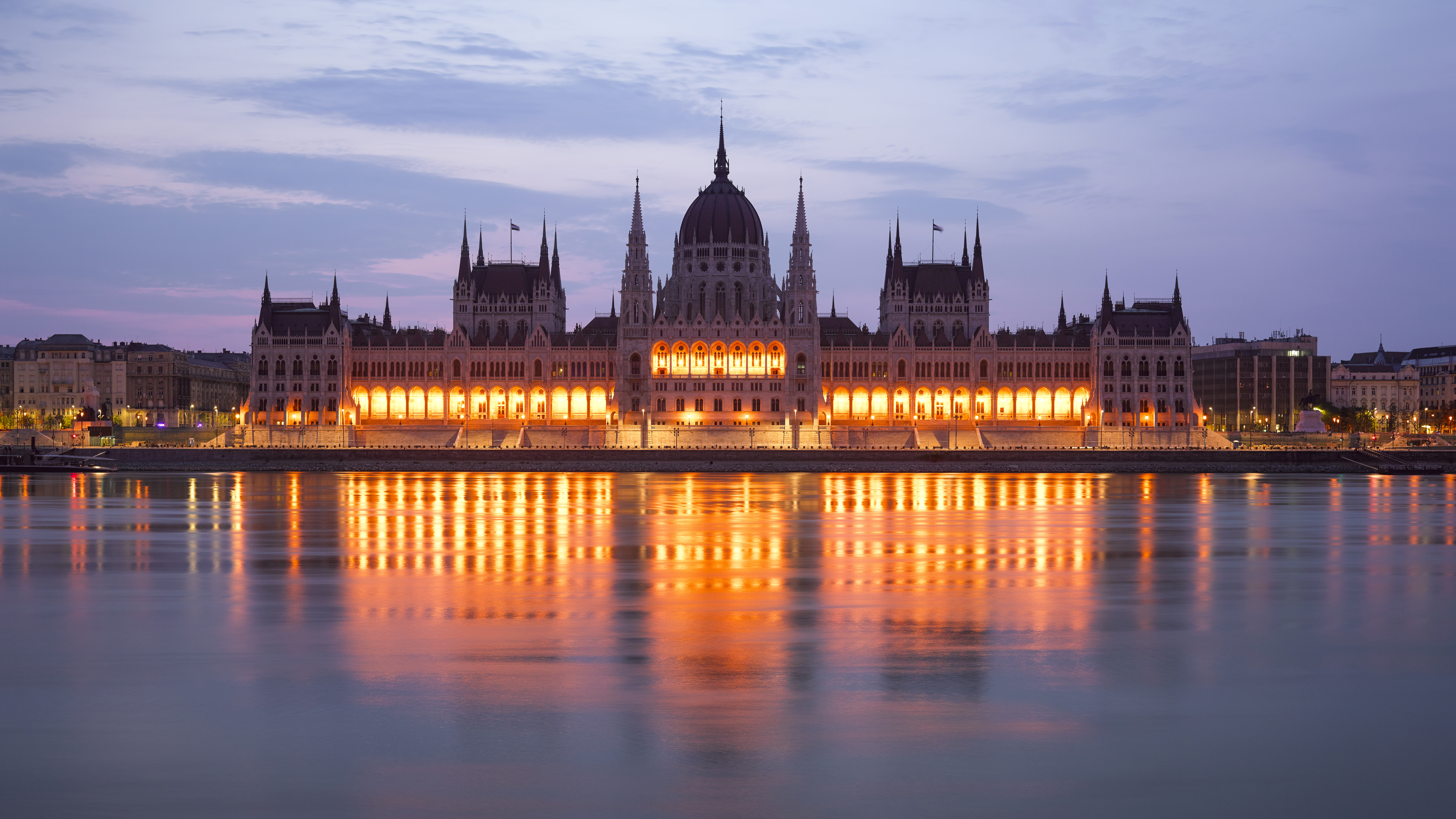 Hungarian Parliament Building, Budapest, Hungary, 2015.